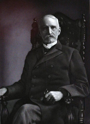 Stephen Sanford, Congressman from New York